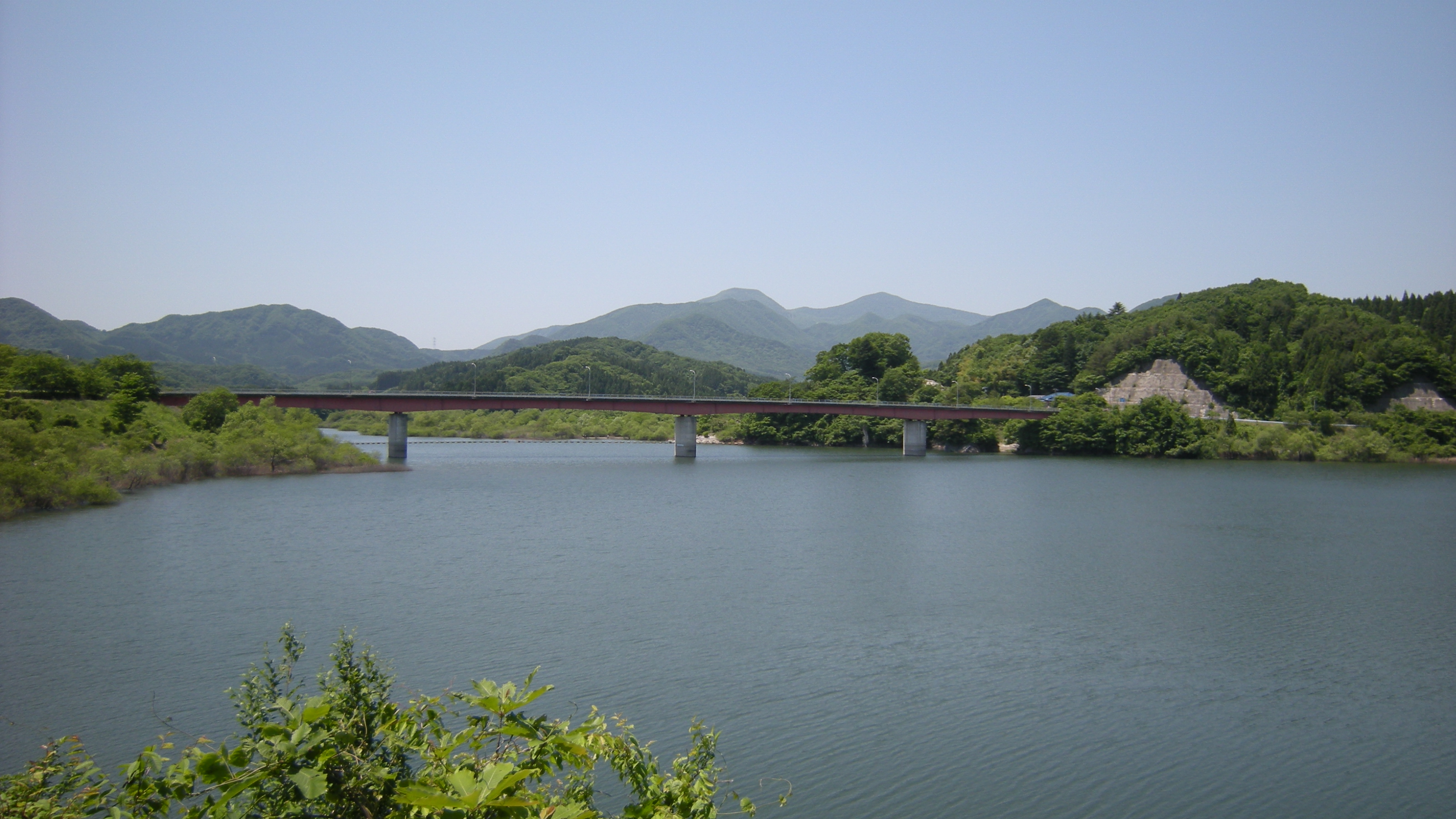 宮城県黒川郡大和町の七ツ森湖と、そこにかかる七ツ森大橋。七ツ森湖は南川ダムのダム湖である。橋の中央の橋脚と右端の橋脚の間の上方には、泉ヶ岳と北泉ヶ岳が見えている。南川ダムの鞍部ダム付近の駐車場より、西に向いて撮影。